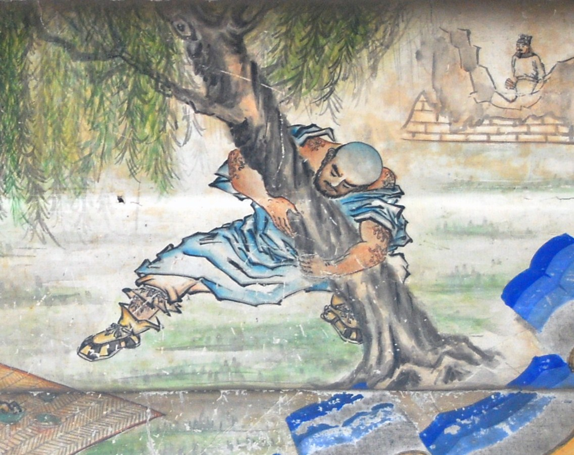 Mural (cropped) depicting Lu Zhishen uprooting a tree, from the novel Water Margin at the Long Corridor in the Summer Palace. Dating back to the 19th century.